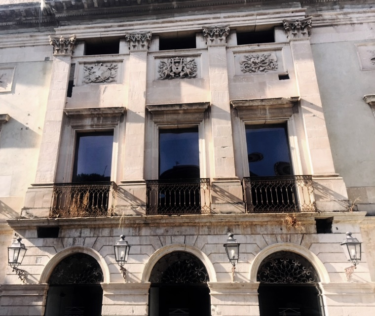 Teatro Massimo Vincenzo Bellini (Acireale), 1